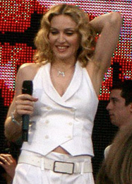 Madonna